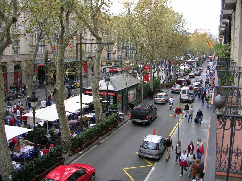 la rambla (tw north)